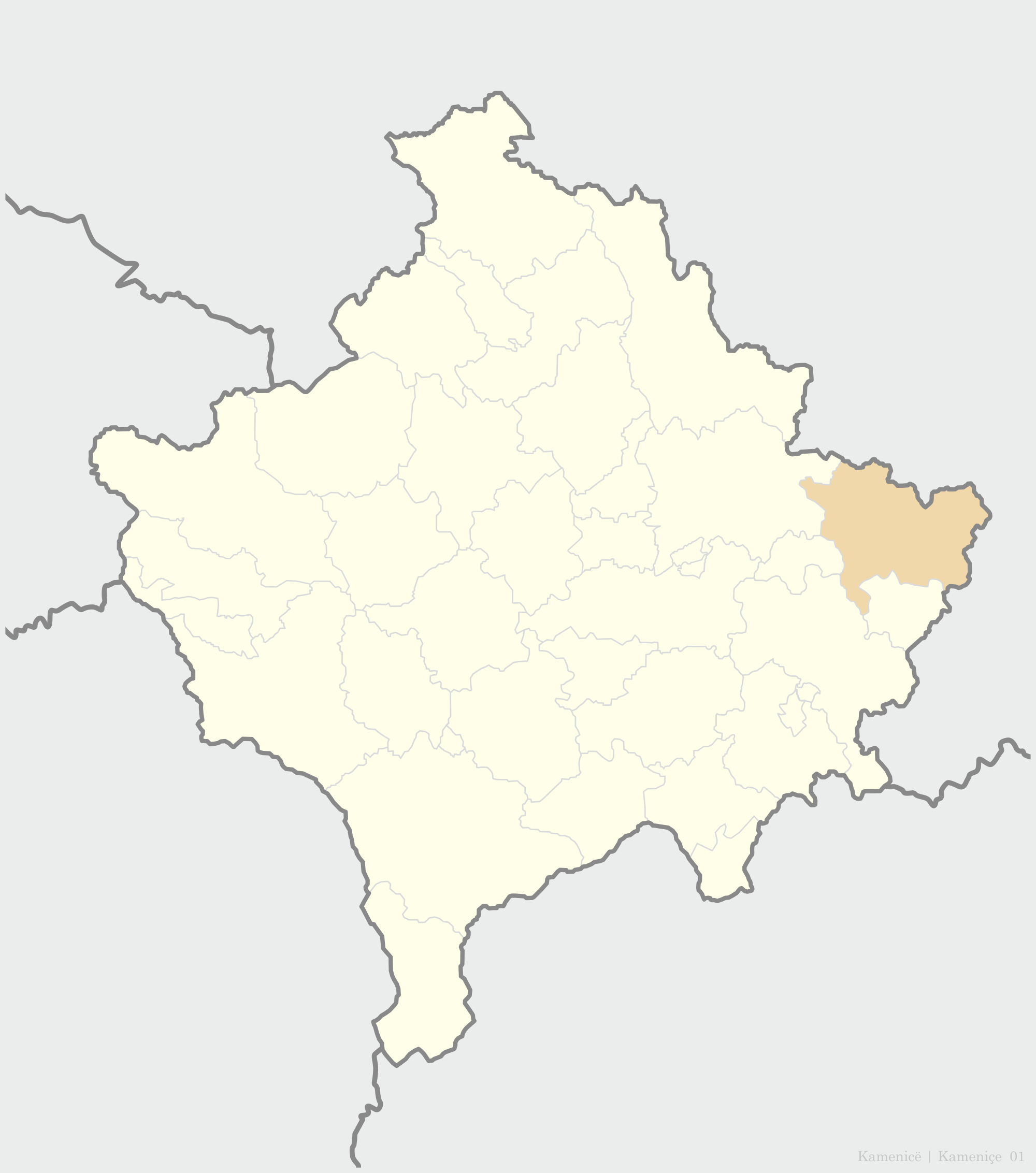 Municipality of Kosovo Kamenicë map